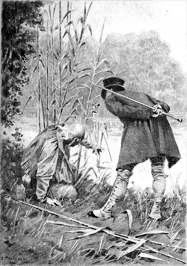 Illustration of Honoré de Balzac's The Peasants (1855): On the Banks of the Avonne.